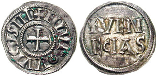 Italy, Venice. Louis the Pious. 814-840. AR Denaro (1.13 g). +HLVDOVVICVS IMP, small cross pattée +VEN/ECIAS in two lines. CNI VII pg. 4, 18; Papadopoli 3; Scarfea 2; Biaggi 2746; M&G 456; Prou 917; MEC 1, 789. Toned EF, a couple spots of encrustation. Rare. "From the first epoch of Venetian coinage, while still under Carolingian domination."